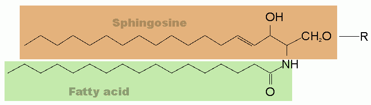 General Structure of sphingolipids Erstellt von User:Lennert B nach einer Version von Benutzer Karl Langner aus der englischen Wikipedia. Das Original ist hier: [1]. Created by User:Lennert B using a version by Benutzer Karl Langner from the english Wikipedia. The original is here: [2].